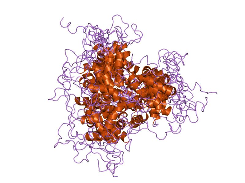 Cartoon representation of the molecular structure of protein registered with 2hfh code.